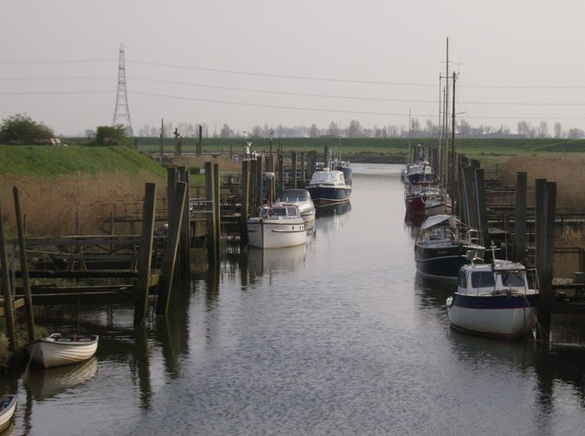 River Glen near the confluence with the River Welland, Lincolnshire, England. Tidal creek, Surfleet-Seas-End